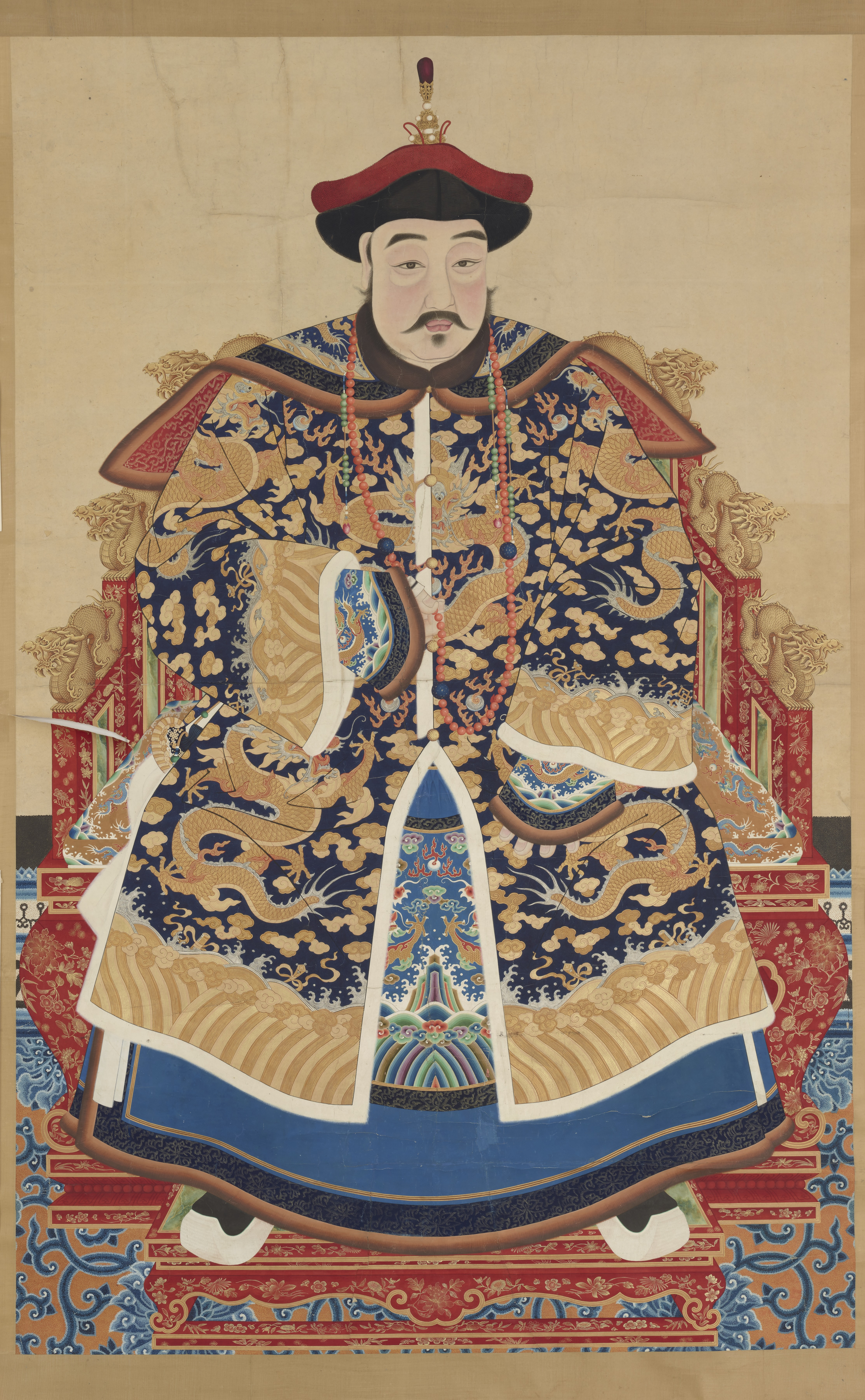 Portrait of Dodo